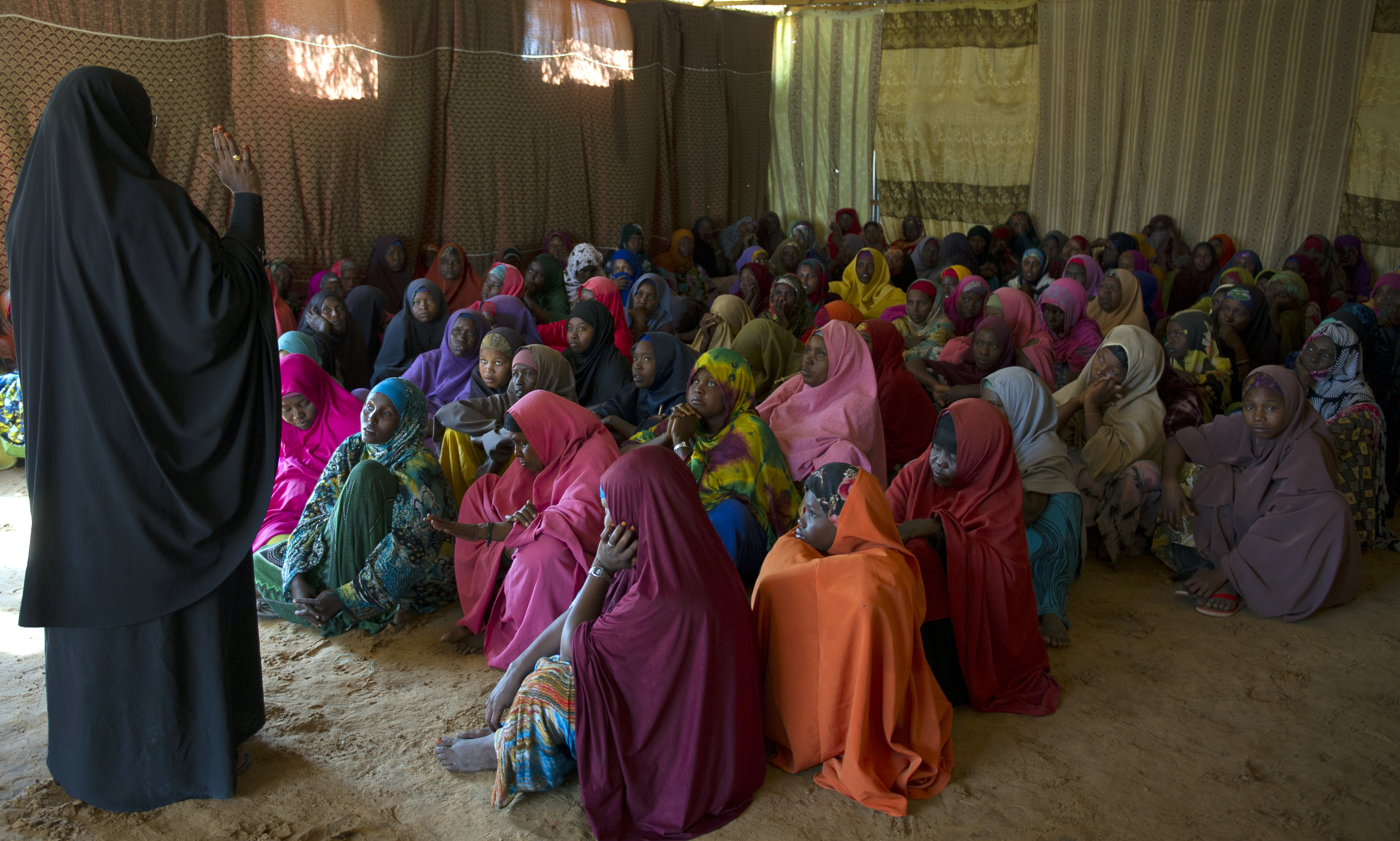 Safiya Abukar Ali conducting an FGM awareness session at the Walalah Biylooley camp. Ali works for the Somalia Women's Development Council, which campaigns for an end to FGM in Somalia. AU UN IST PHOTO / David Mutua